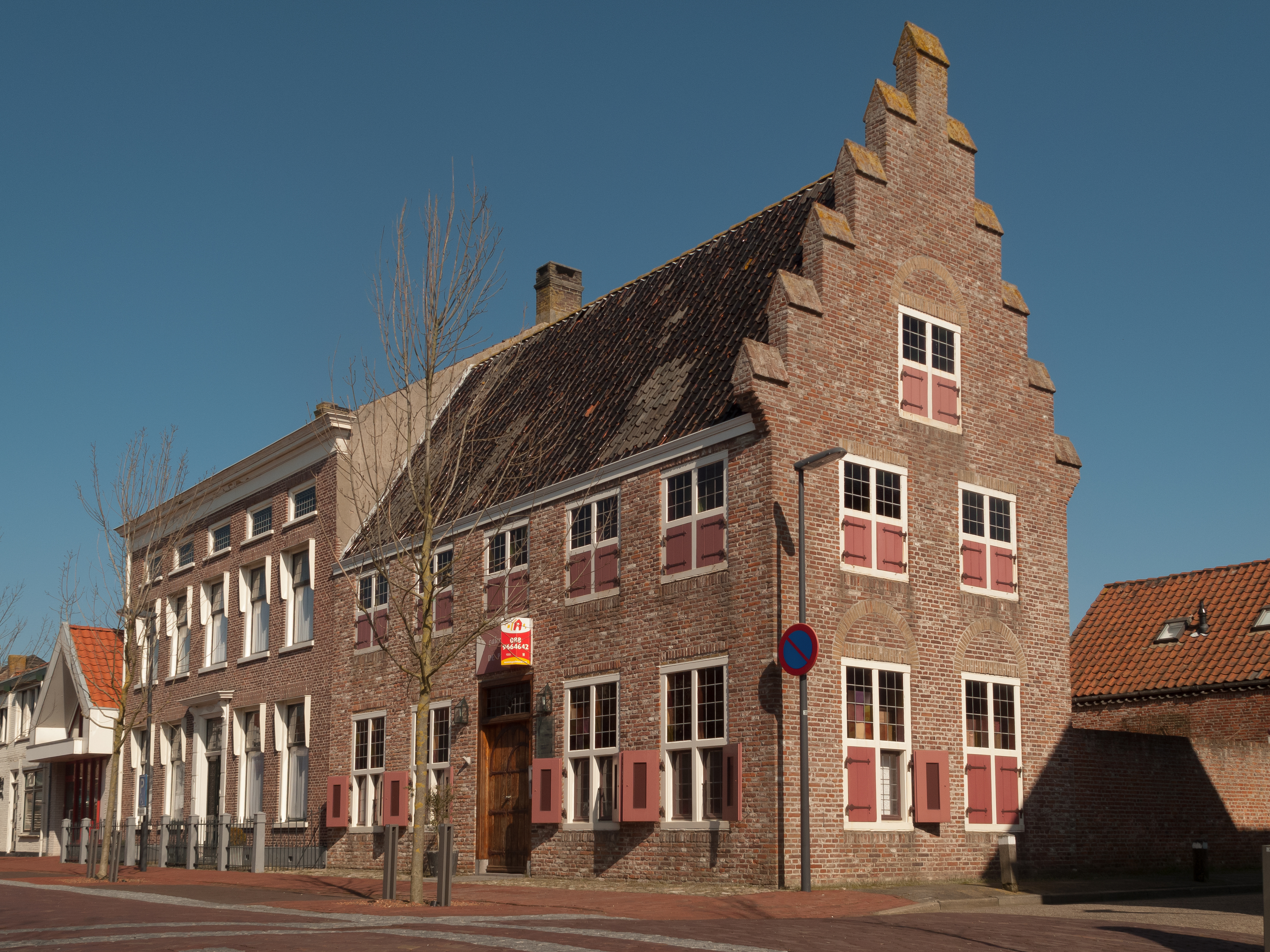 Wissenkerke, monumental building